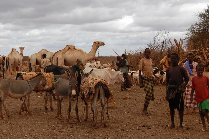 People with animals (among them camels, donkeys and cattle) waiting outside a water catchment area to be watered. Bakool region, Somalia.